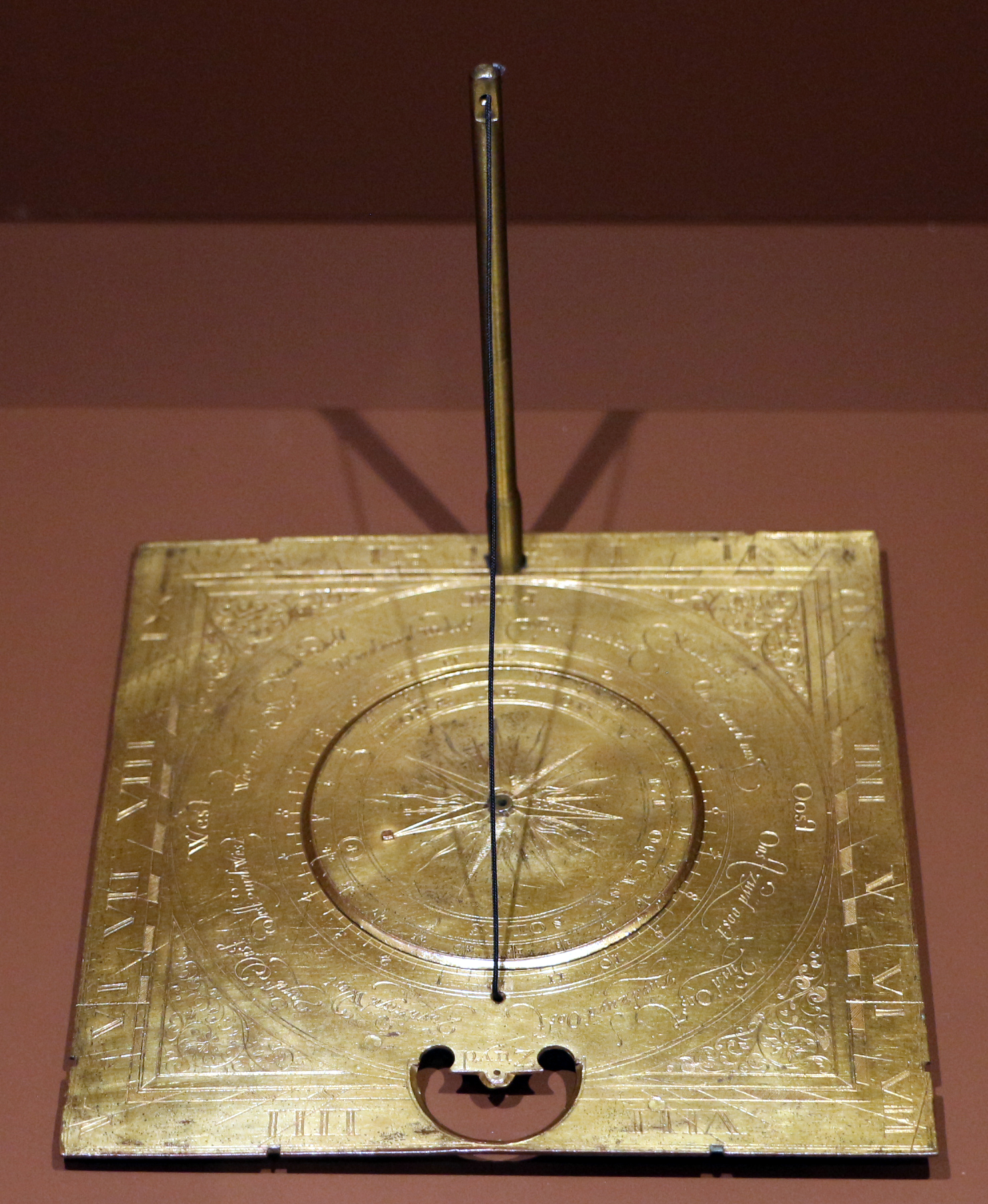 Metalware in the Milwaukee Art Museum